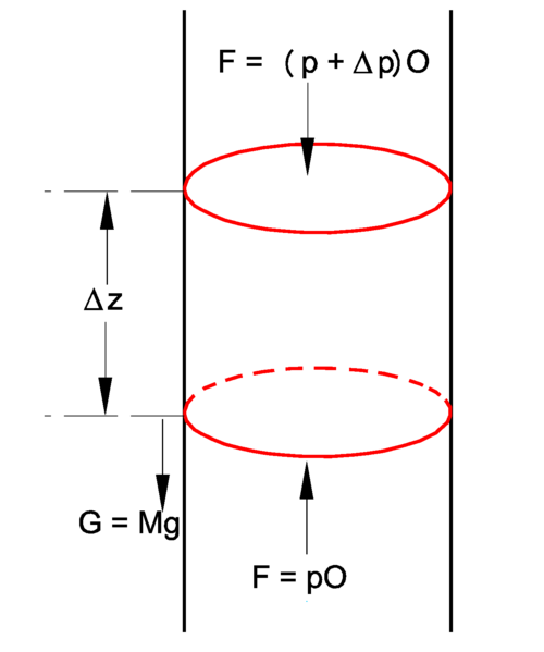 Diagram used in proof of barometric formula